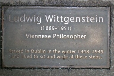 Plaque commemorating Wittgenstein in the Palm House, National Botanic Gardens, Dublin, Ireland